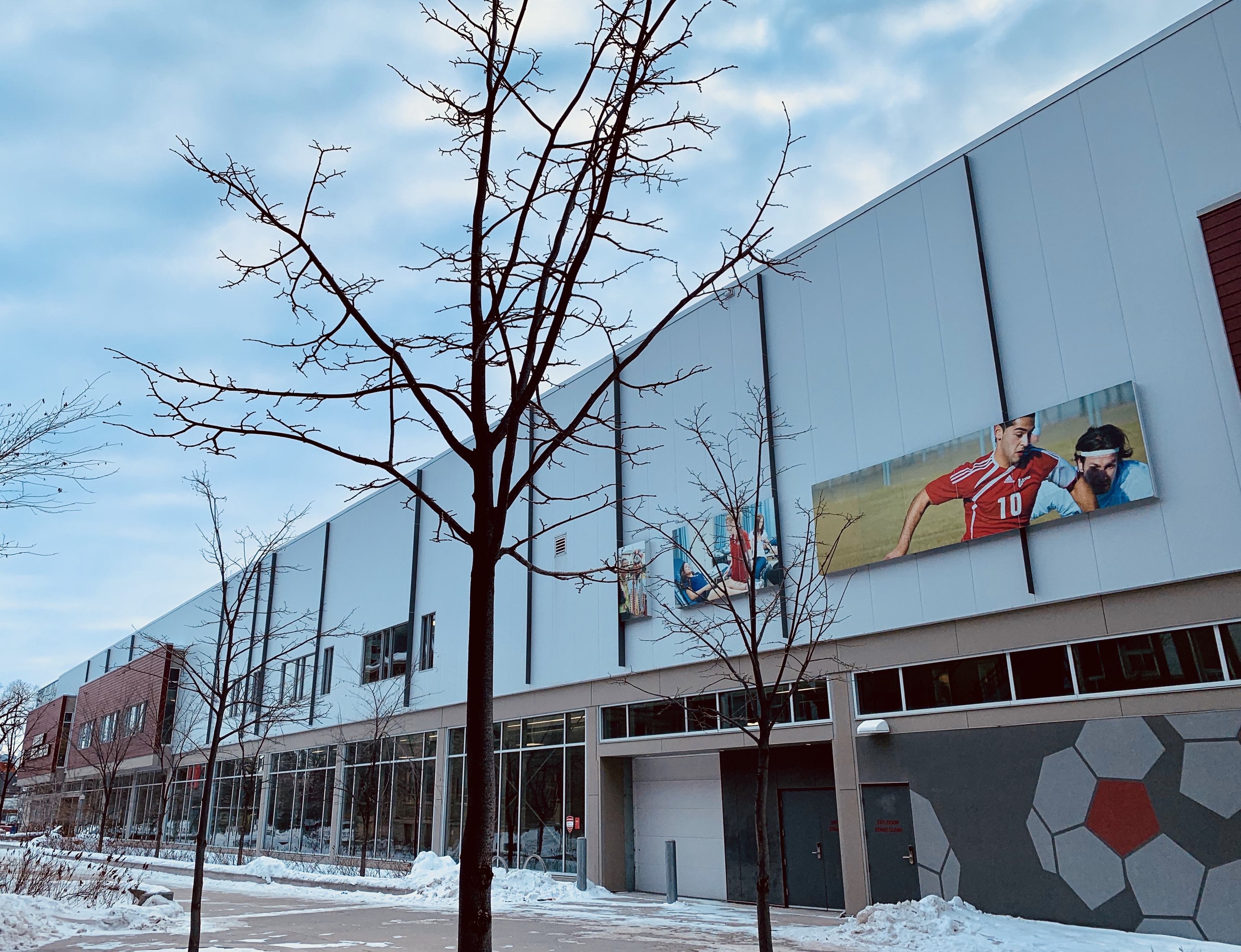 Indoor Multipurpose complex with soccer fields, running track, gym, offices and study areas.